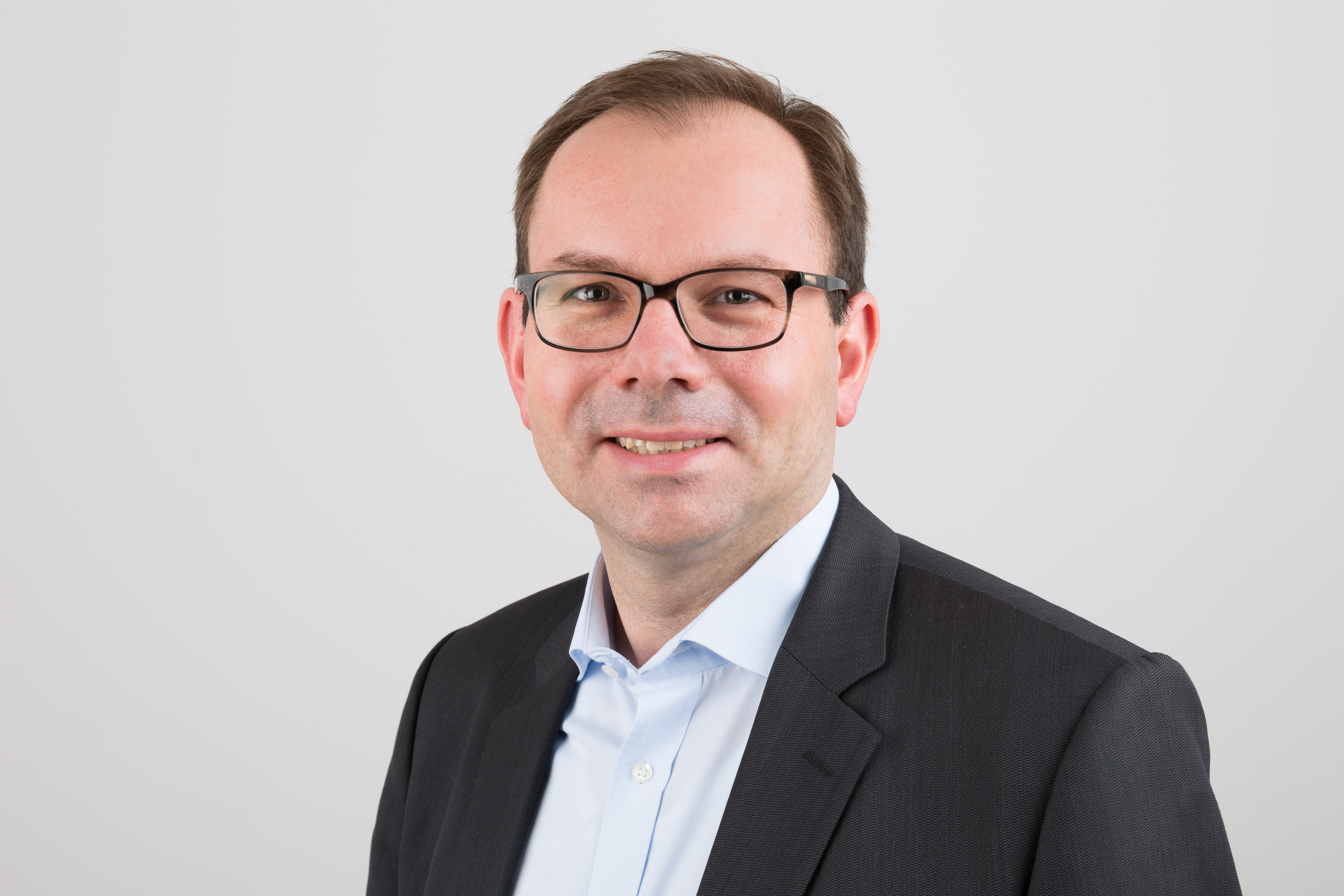 Mathias Wagner, member of the Landtag of Hesse